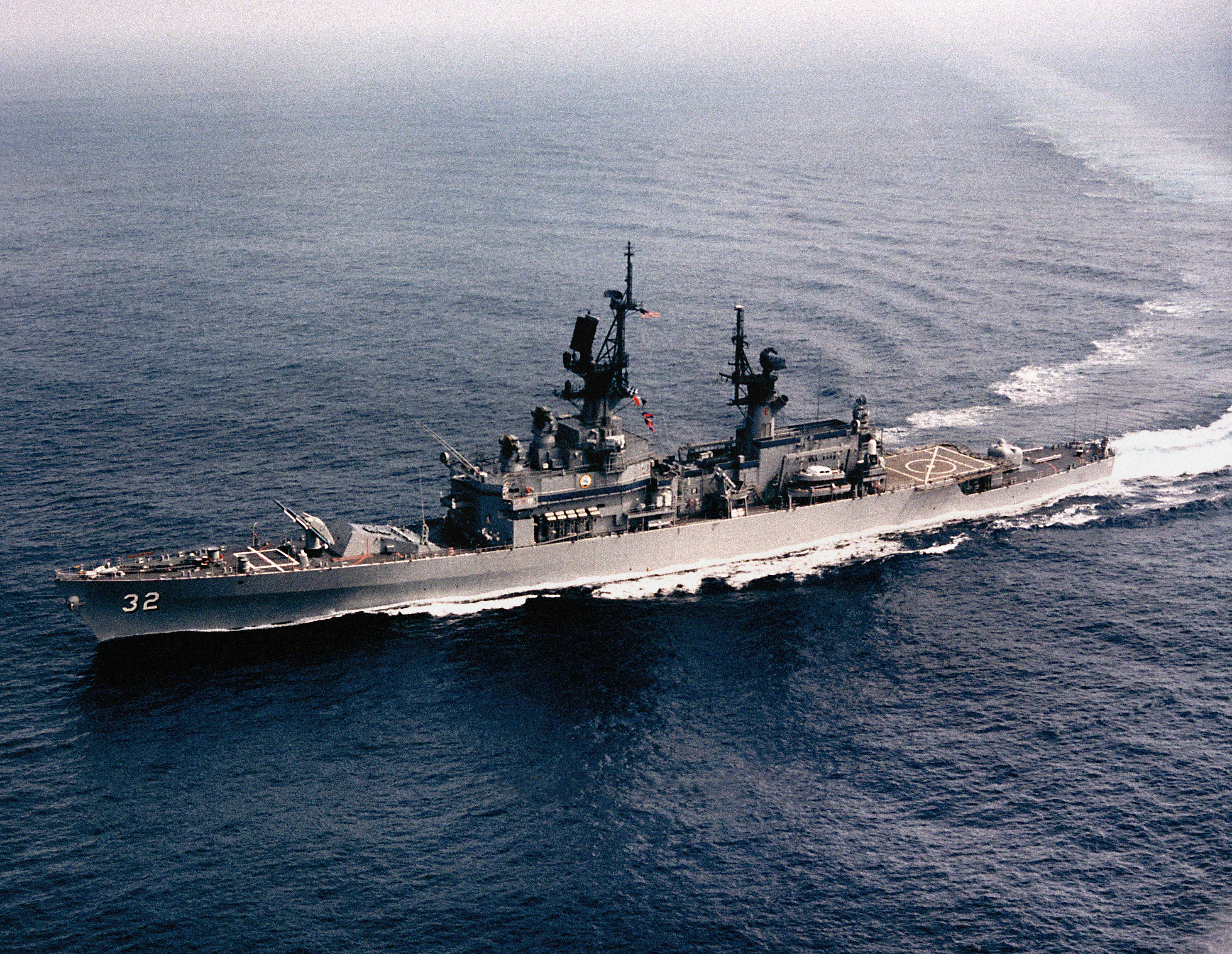 The U.S. Navy guided missile cruiser USS William H. Standley (CG-32) underway circa 5 miles (9 km) south-west of Point Loma while returning to San Diego, California (USA), circa in February 1985.